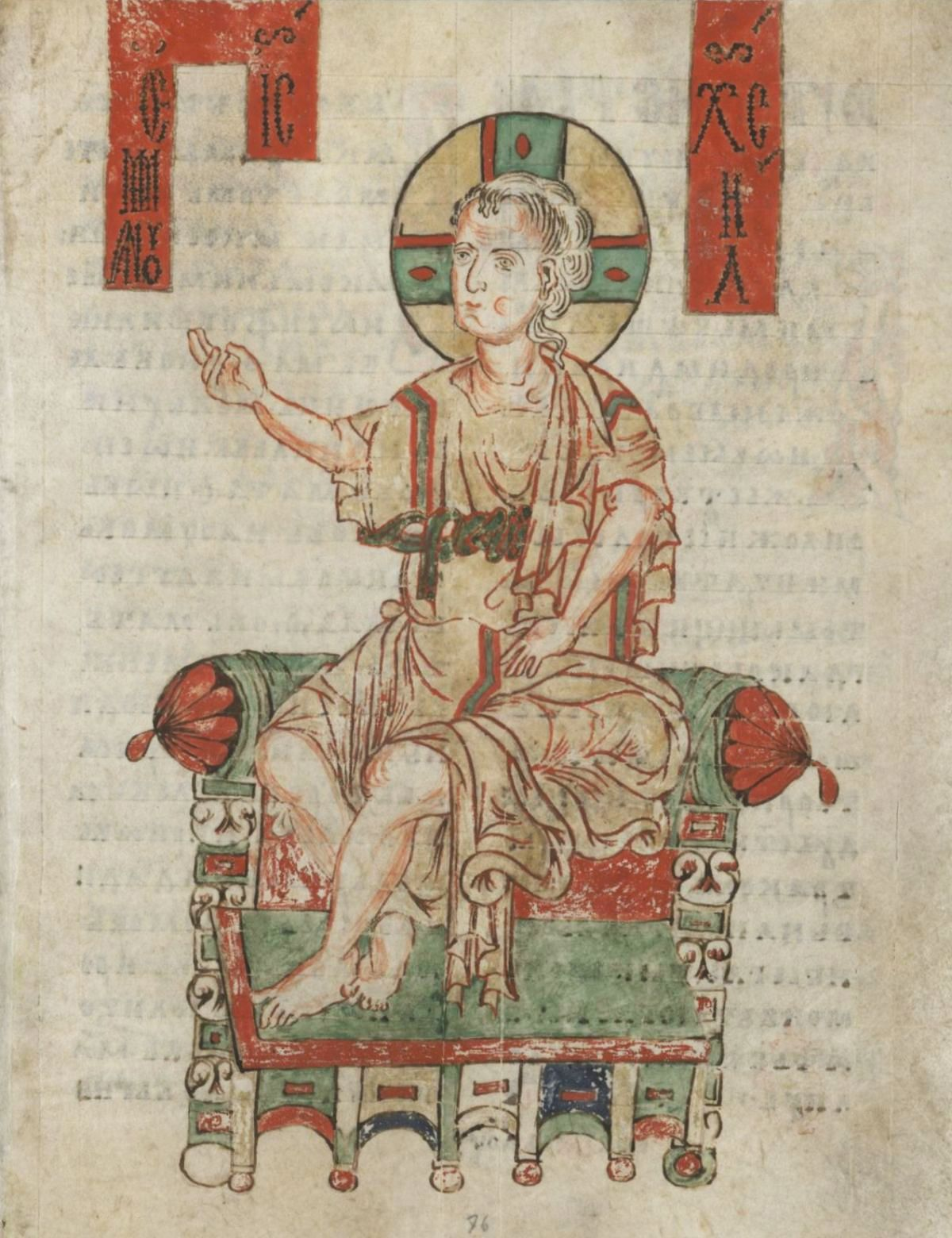 Probably an image of Jesus from St. Johns gospel in a miniature from Vukan's Gospel, end of the twelfth century, by some held to be an image of the Evangelist